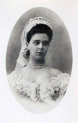 Grand Duchess Elena Vladimirovna of Russia, later Princess Nicholas of Greece